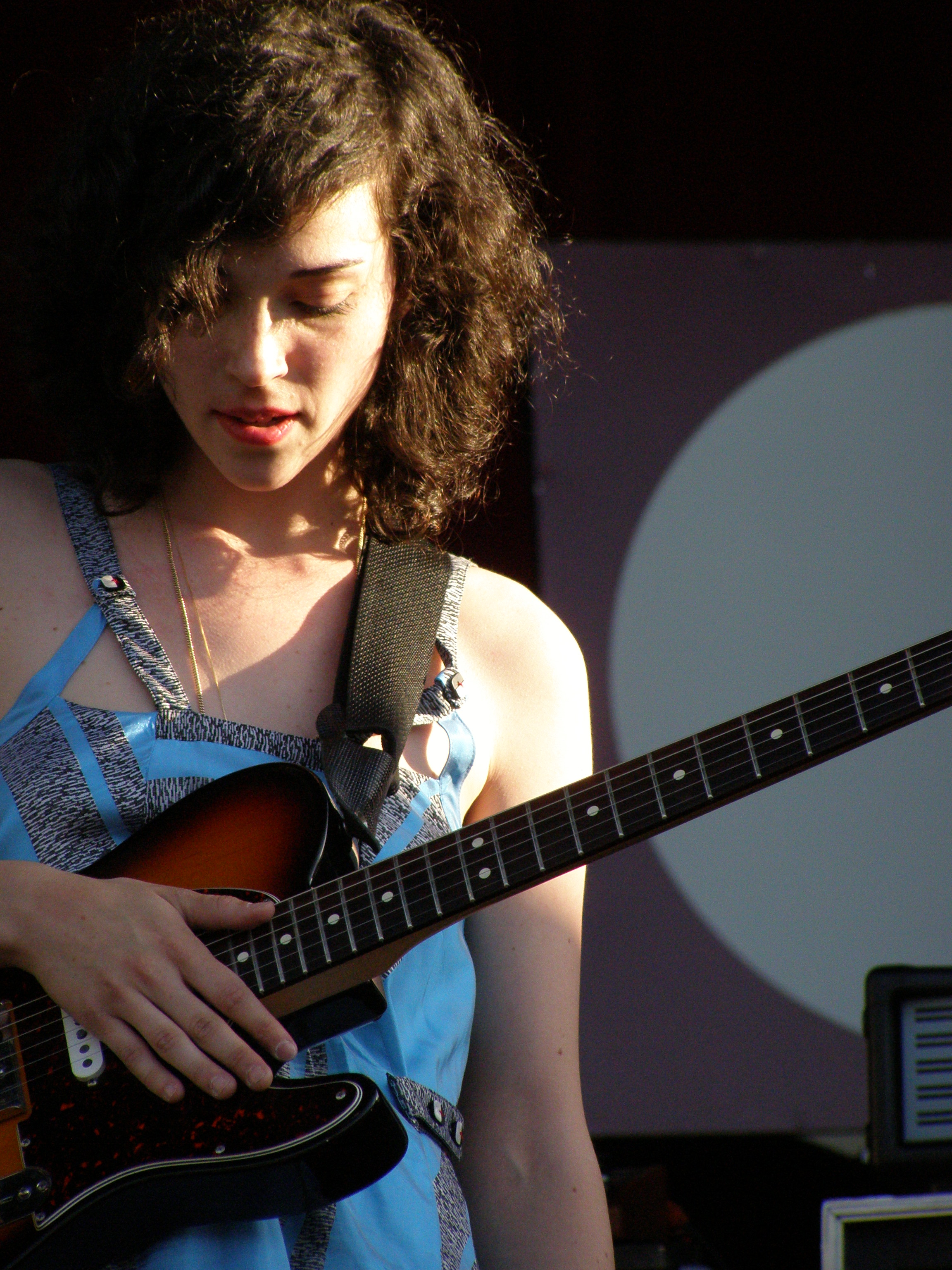 Annie Clark, live. Taken by Victoria Potter; Author himself uploaded the image. See [1] (the first comment).